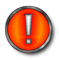 Exclamation icon, made with Gimp